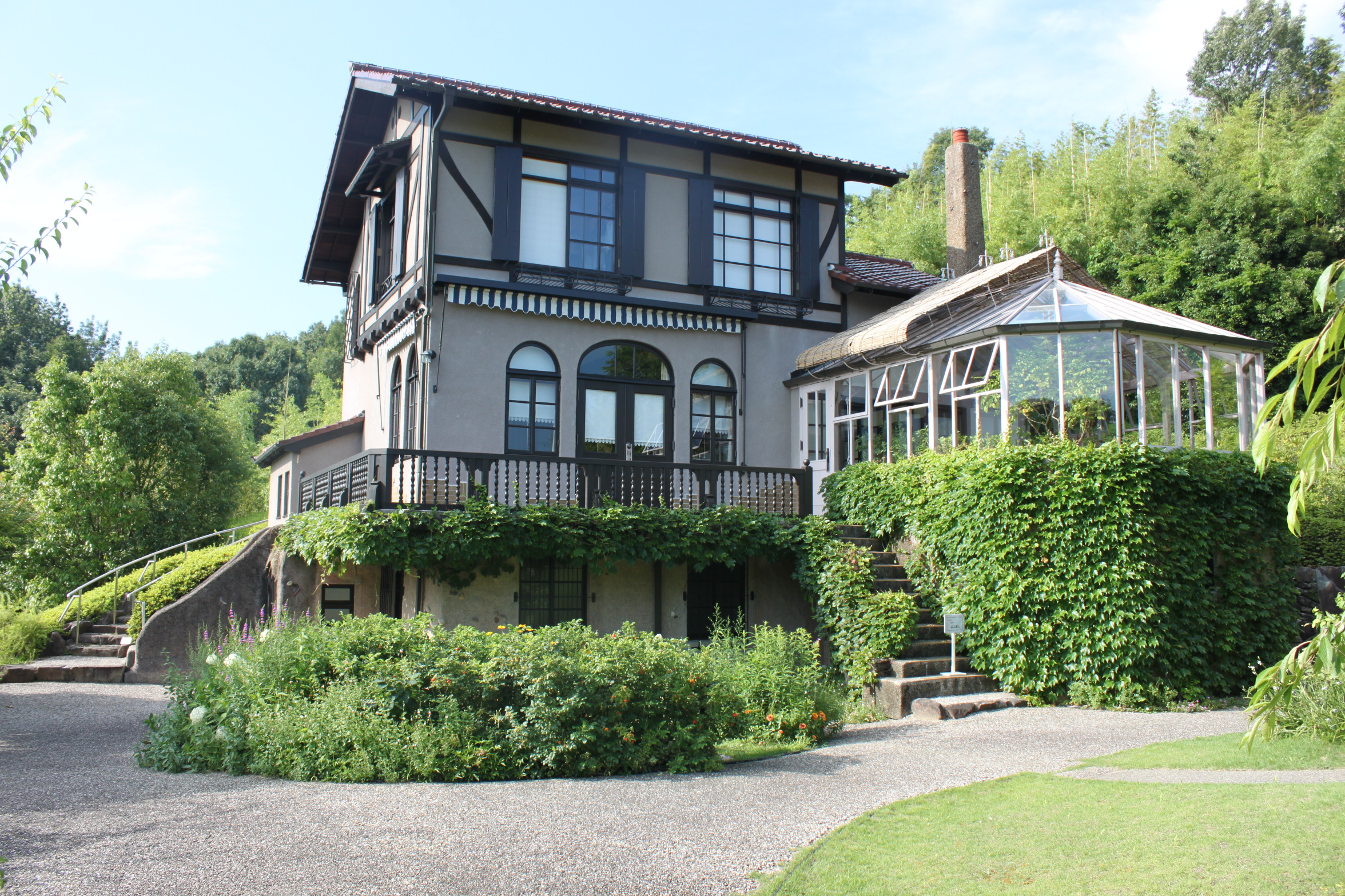 House of Toyota founder Kiichiro Toyoda, near Toyota City - By Bertel Schmitt